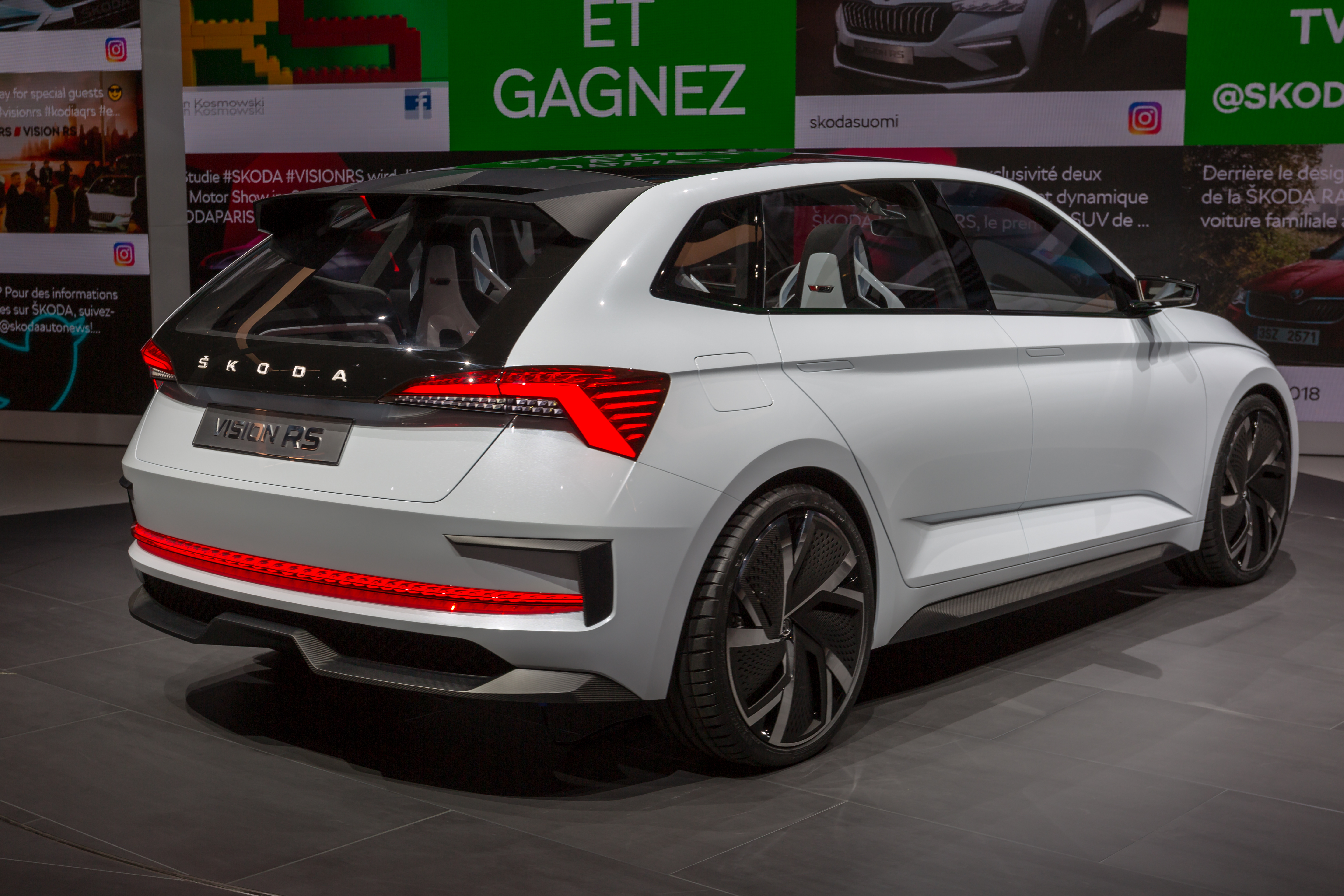 Mondial Paris Motor Show 2018